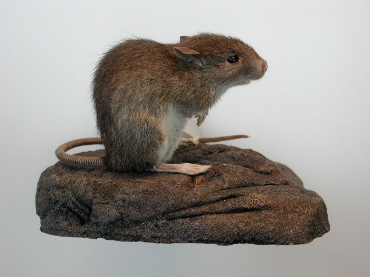 The Pacific or Polynesian rat is the smallest of the three rats (Rattus rattus, R. norvegicus and R. exulans) closely associated with humans. R. exulans has a slender body, pointed snout, large ears, and relatively small, delicate feet. A ruddy brown back contrasts with a whitish belly.